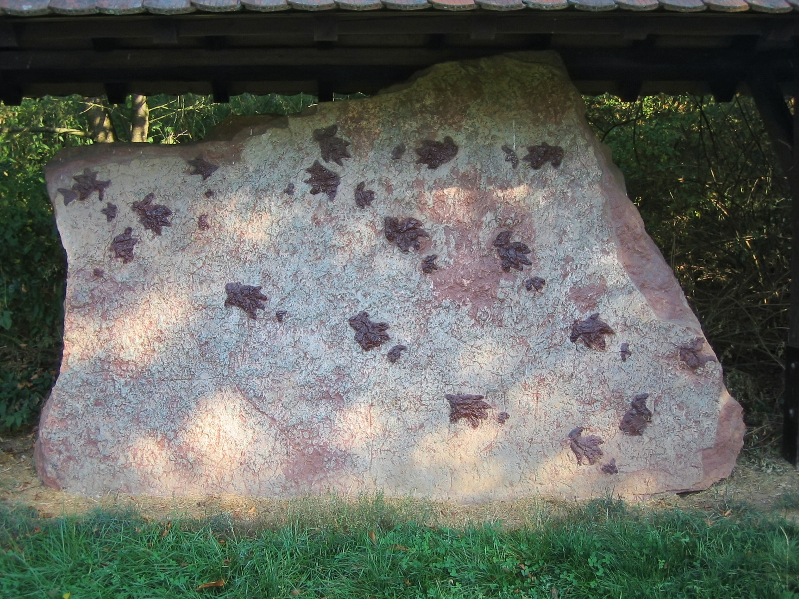 Lower surface of large sandstone slab („Rötquarzit“ of the Upper Buntsandstein, Anisian, early Middle Triassic, 240 mya)[2] with Chirotherium barthii,on display at parking site at state road (L) 509 (Bronnbacher Straße), about 1 km north of town of Külsheim near Würzburg, northeastern Baden-Wurttemberg, Germany. ↑ Die Angaben zur Stratigraphie basieren auf mehreren Jahresberichten des Staatlichen Museums für Naturkunde Stuttgart, veröffentlicht in den Jahresheften der Gesellschaft für Naturkunde in Württemberg, Jahrgänge 144, 146 u. 147 (1989, 1991, 1992), in denen der Erwerb von Stücken aus Kühlsheim vermerkt ist. ↑ Stratigraphic informations are based on the annual reports of the Staatliches Museum für Naturkunde Stuttgart, published in the Jahreshefte der Gesellschaft für Naturkunde in Württemberg, volumes 144, 146 & 147 (1989, 1991, 1992) in which the purchase of several specimens from Külsheim is noted.